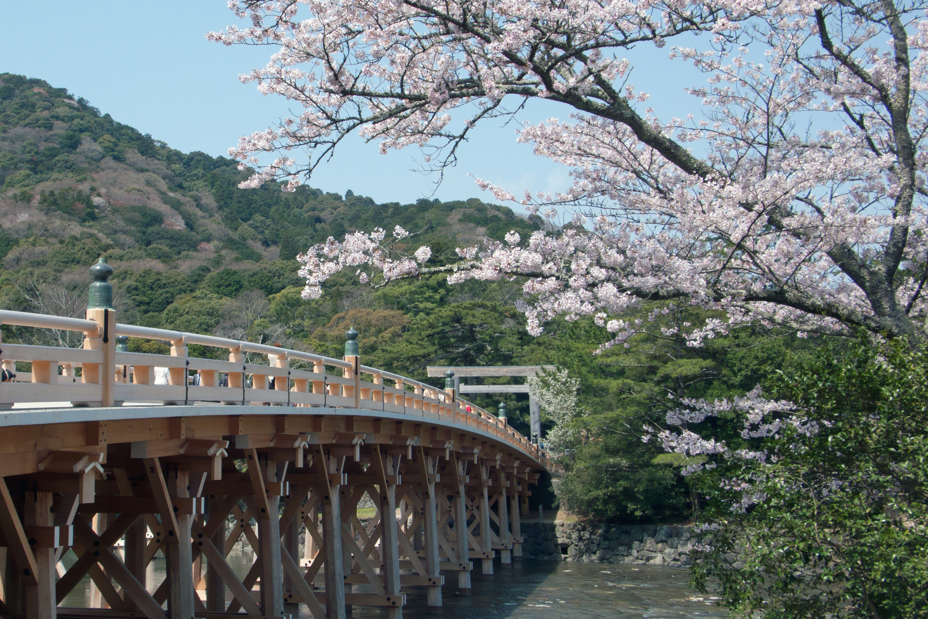 The Uji-bashi, the bridge in front of Kotaijingu(Naiku), Ise city, Mie Prefecture, Japan.